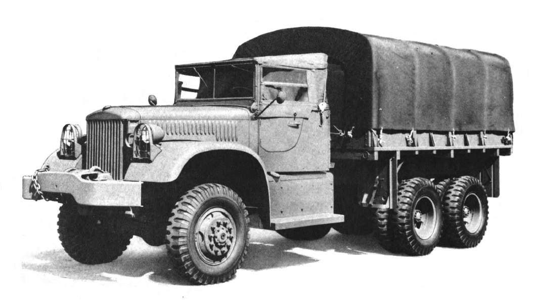 Diamond T Model 970A 4-ton 6x6 Ponton Truck